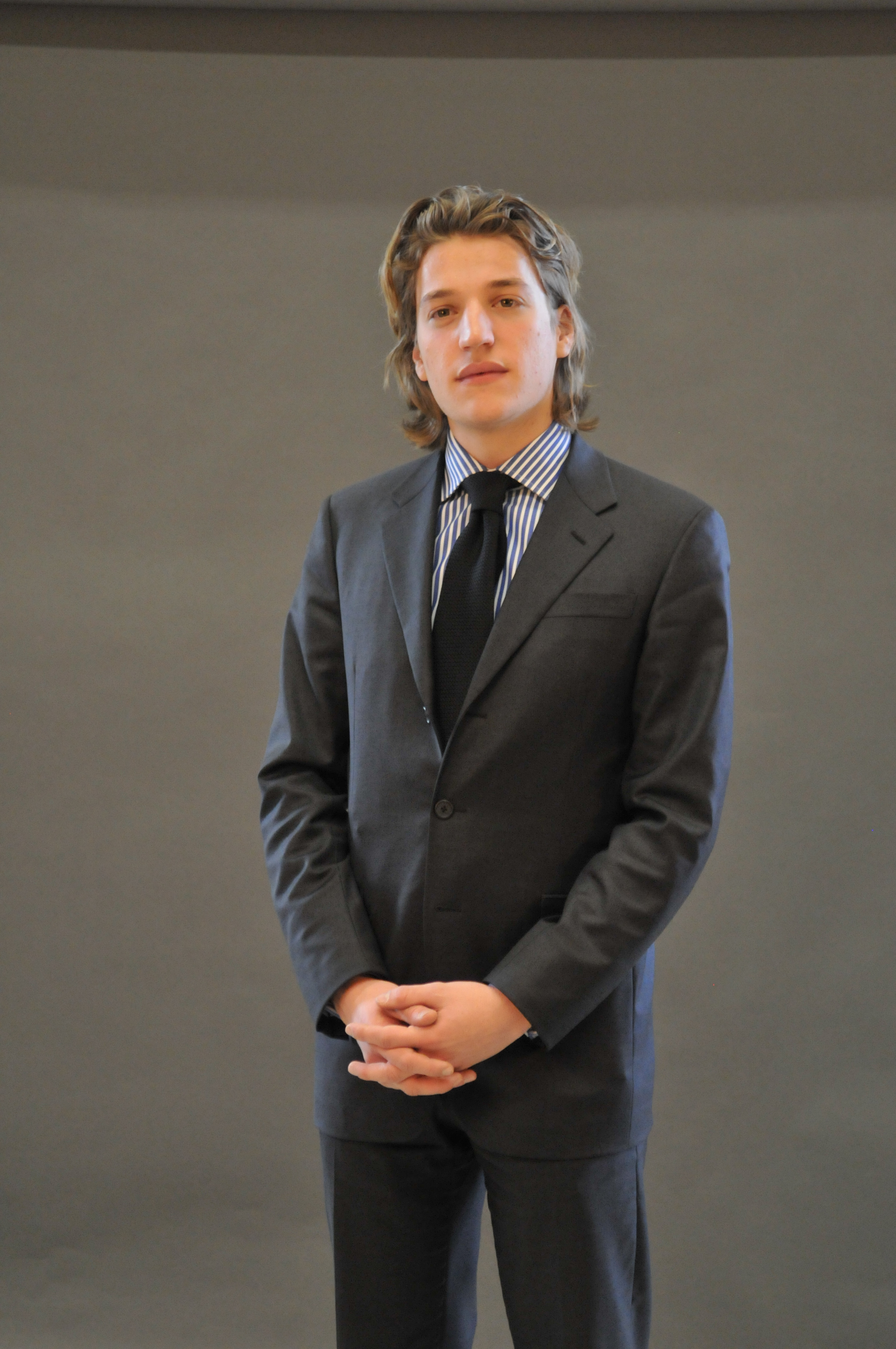 French president's son Jean Sarkozy is seen at the first meeting of General Council of the 'Hauts de Seine' departement, in Nanterre, France on March 20, 2008.